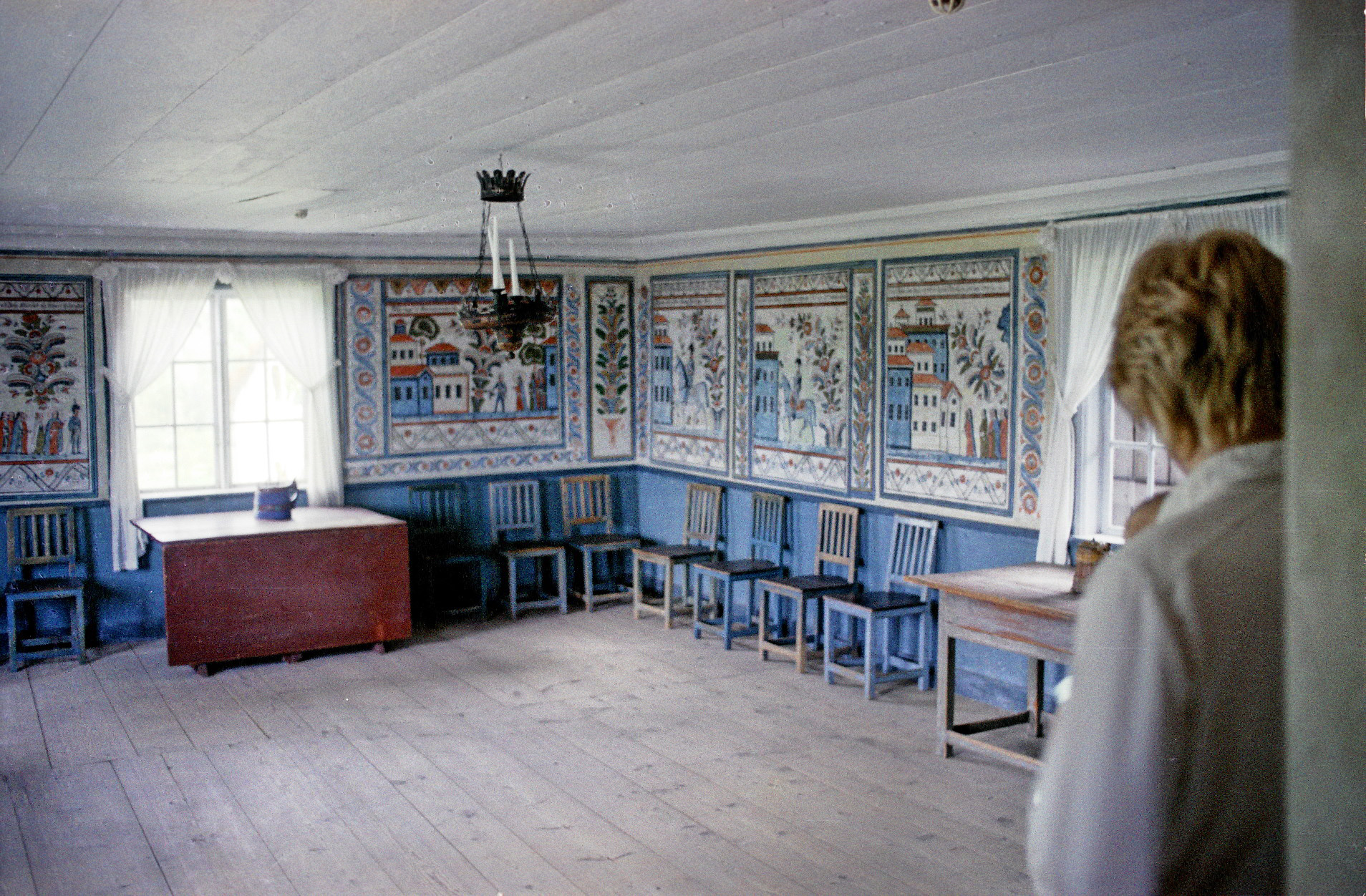 Dalecarlian paintings at Siggebohyttan, Lindesberg, Sweden